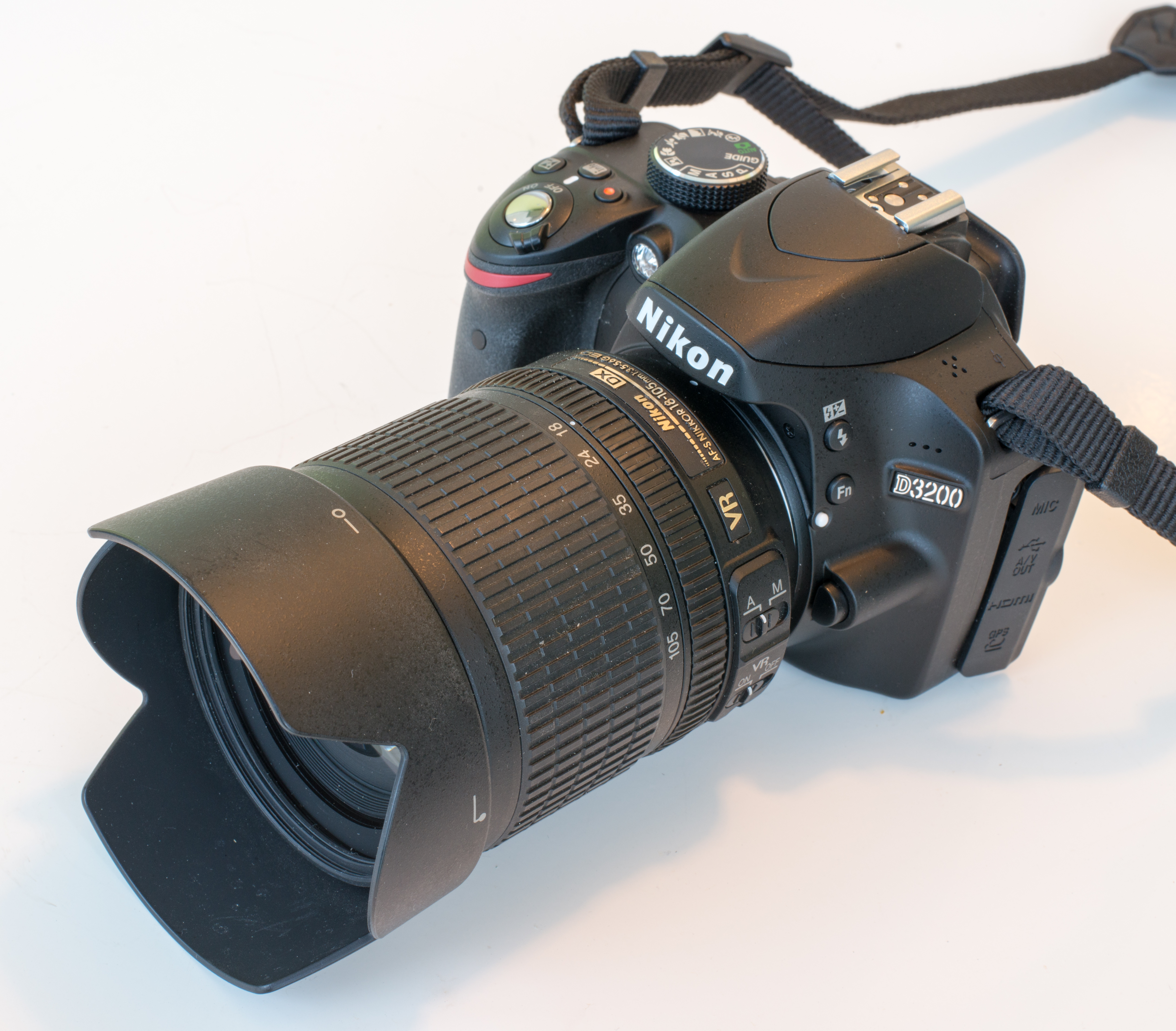 Nikon D3200 and Nikon 18-105 objektive